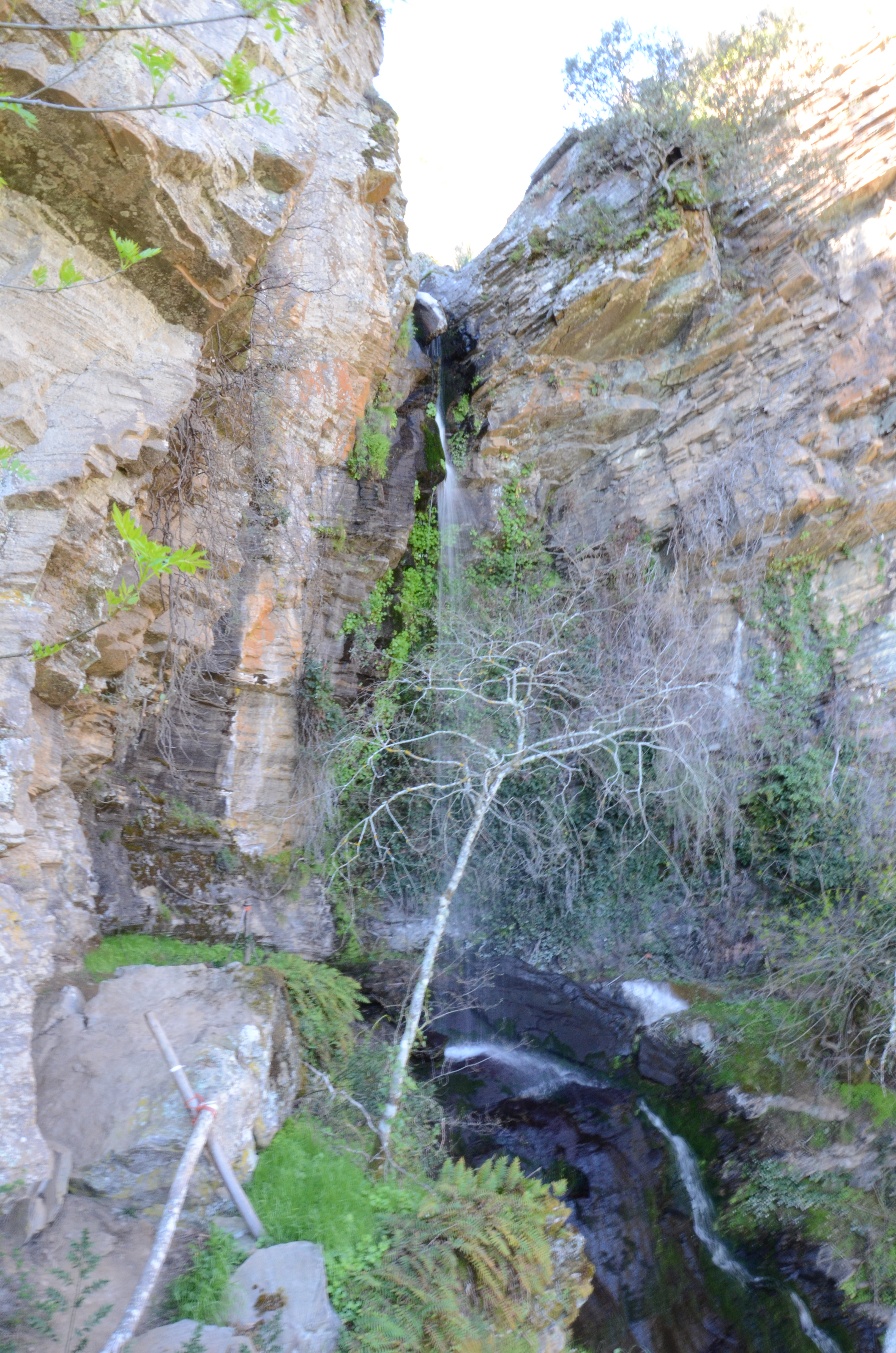 Pinero Waterfall in the Arribes del Duero Natural Park, in the Masueco de la Ribera town, Salamanca